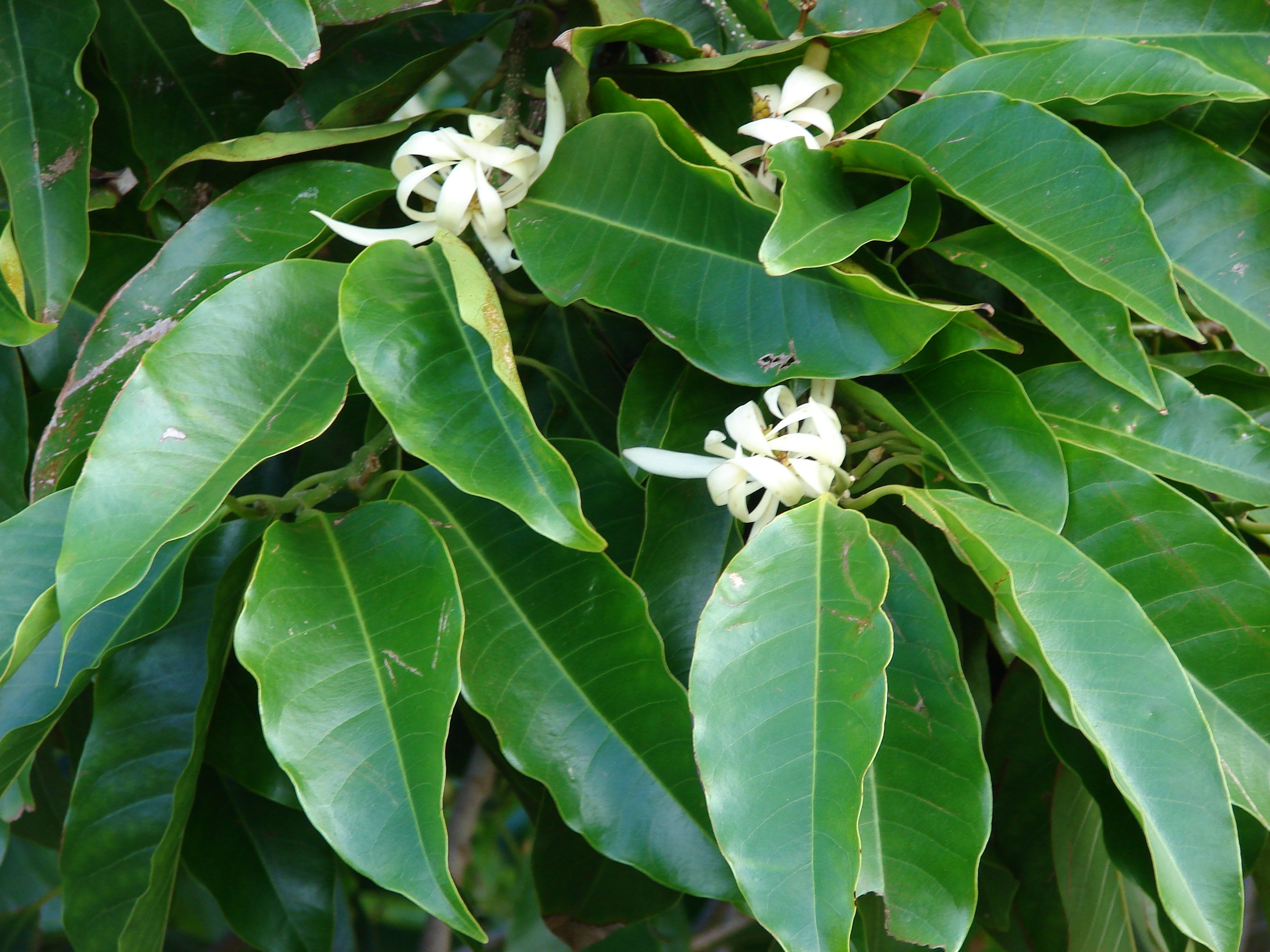 Michelia x alba (flowers and leaves). Location: Maui, Sun Yat Sen Park Keokea